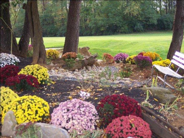 A garden on the blue golf course at the Penn State University. author: David Royal Hanson source: my digital camera